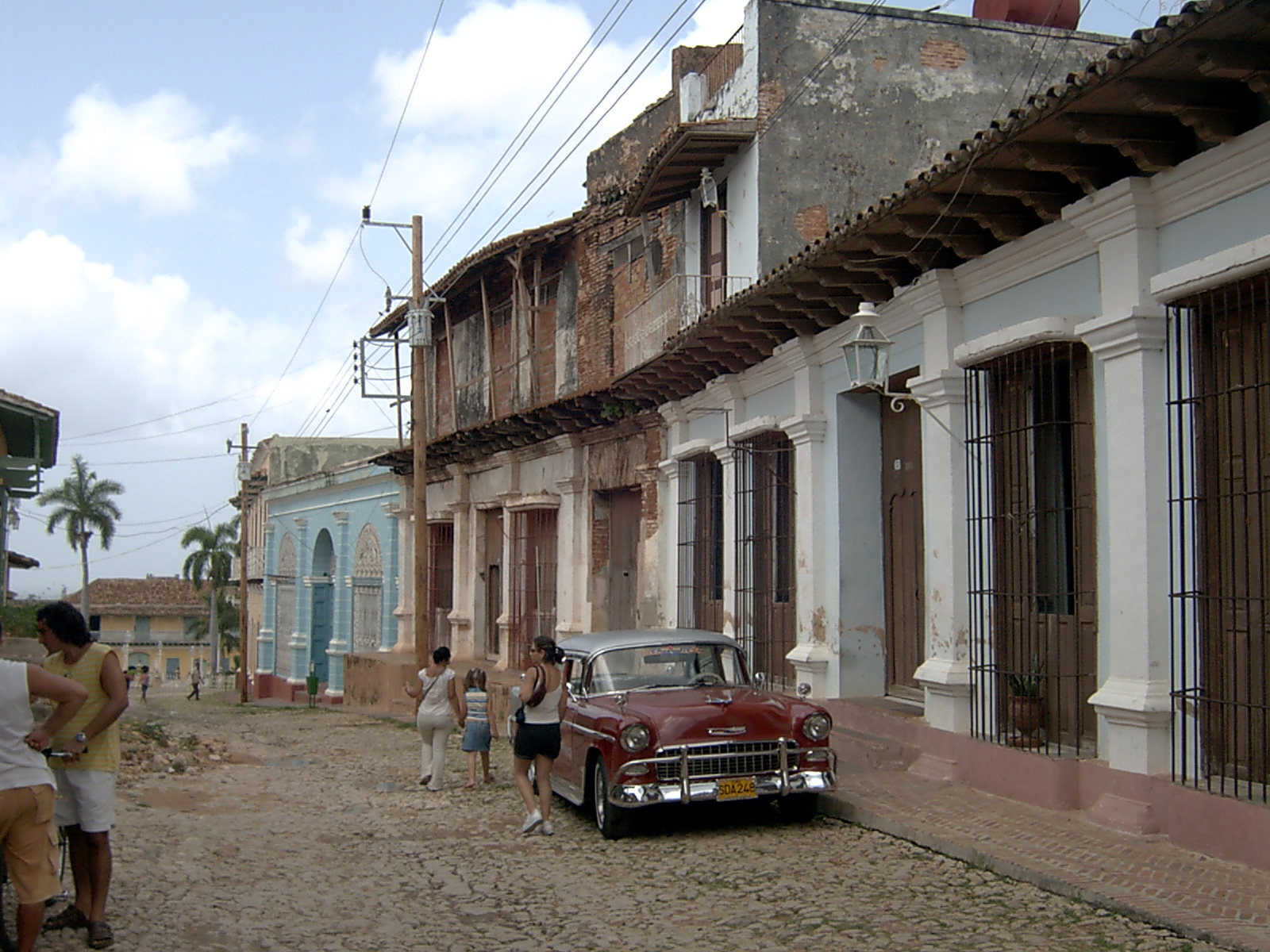 Street in Trinidad, Cuba, with the colonial buildings and a '50s car.